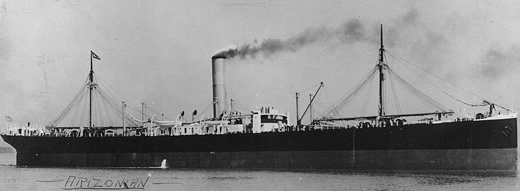 Commercial cargo ship SS Arizonan soon after her completion by Union Iron Works, San Francisco, California. She served in the US Navy from 1918 to 1919 as USS Arizonan (ID-4542A).